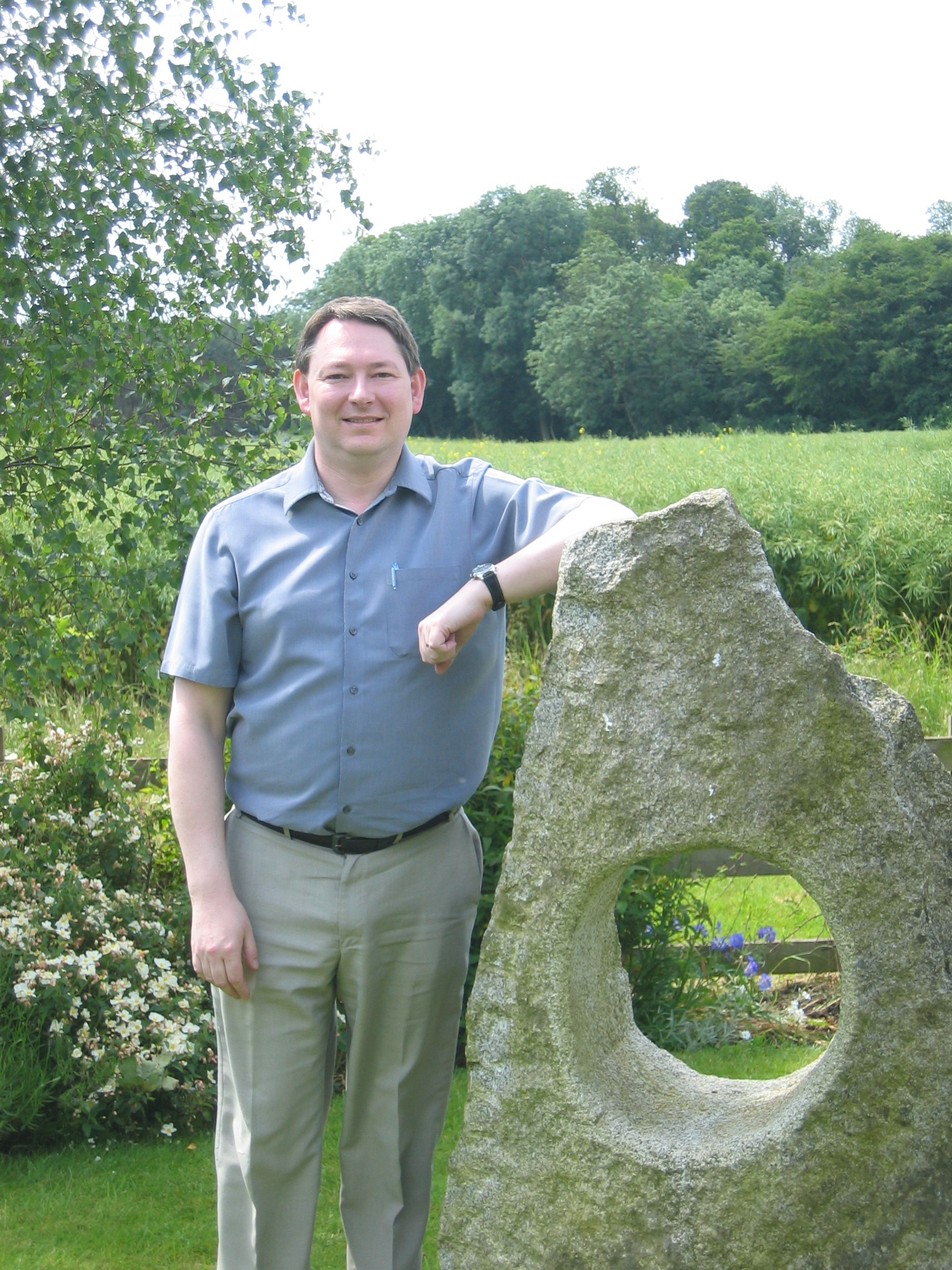 A photograph of British author Justin Richards, in the garden of his home in Warwickshire